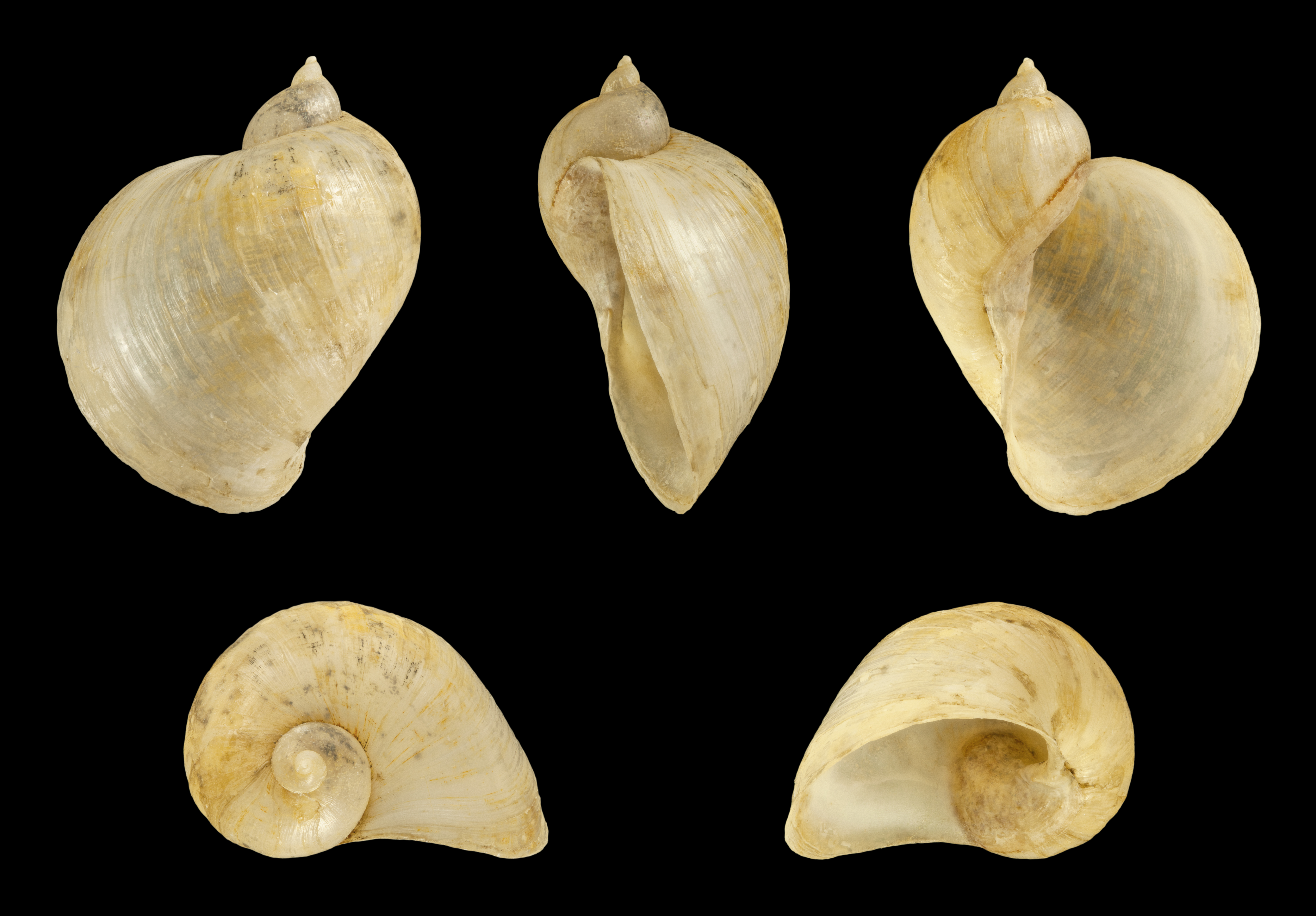 Radix auricularia auricularia Linné, 1758, Big-ear Radix; Height 1.8 cm; Originating from the old river Rhine meander "Kleiner Bodensee", in the NSG Altrhein Kleiner Bodensee, Karlsruhe, Germany; Shell of own collection, therefore not geocoded.